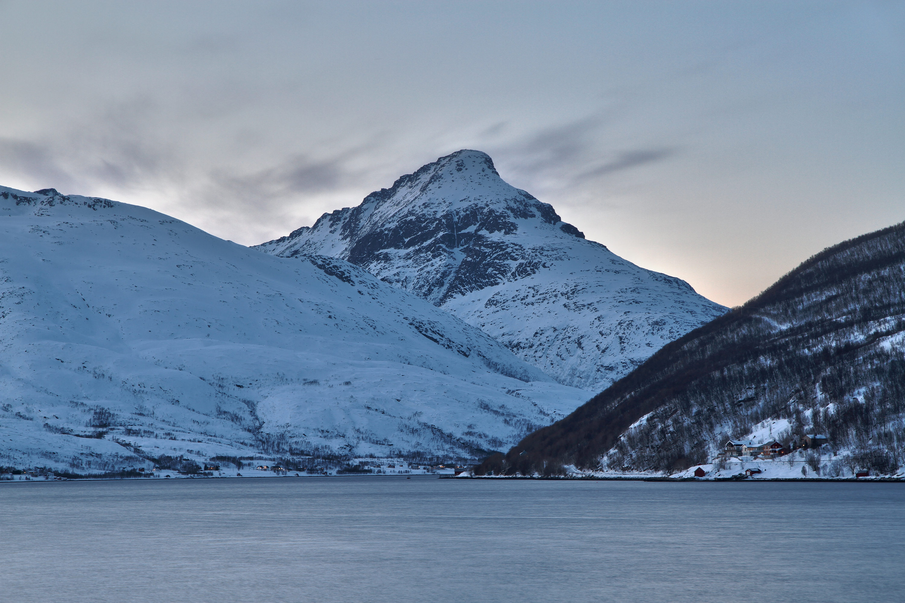 The southeast face of Store Blåmann (1,044 m) as seen over Kaldfjorden during begin of blue hour in 2012 March.